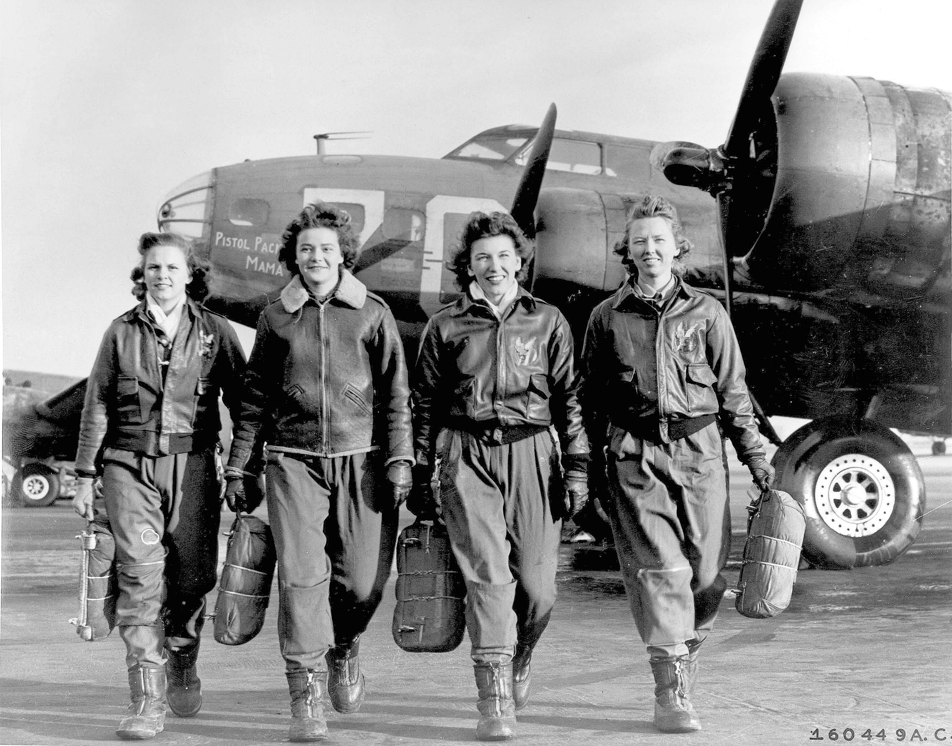 Members of the Women Airforce Service Pilots (WASP), who have been trained to ferry the B-17 Flying Fortresses, are pictured leaving their ship at the four engine school at Lockbourne Army Air Field during the World War II. From left to right are Frances Green, Margaret (Peg) Kirchner, Ann Waldner and Blanche Osborn. The WASP were civilian women pilots who flew in non-combat situations for the U.S. Army Air Forces during the war.